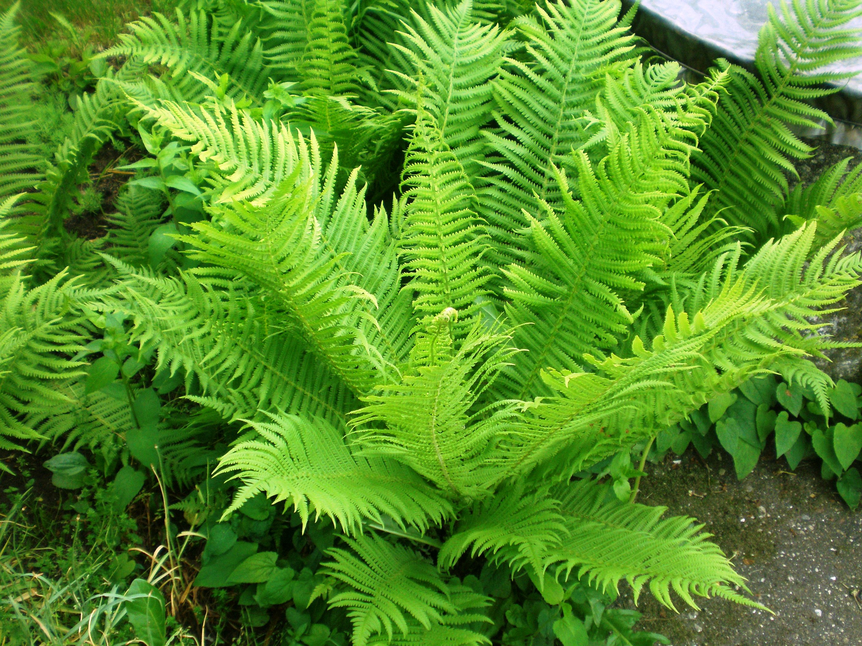 Matteuccia struthiopteris